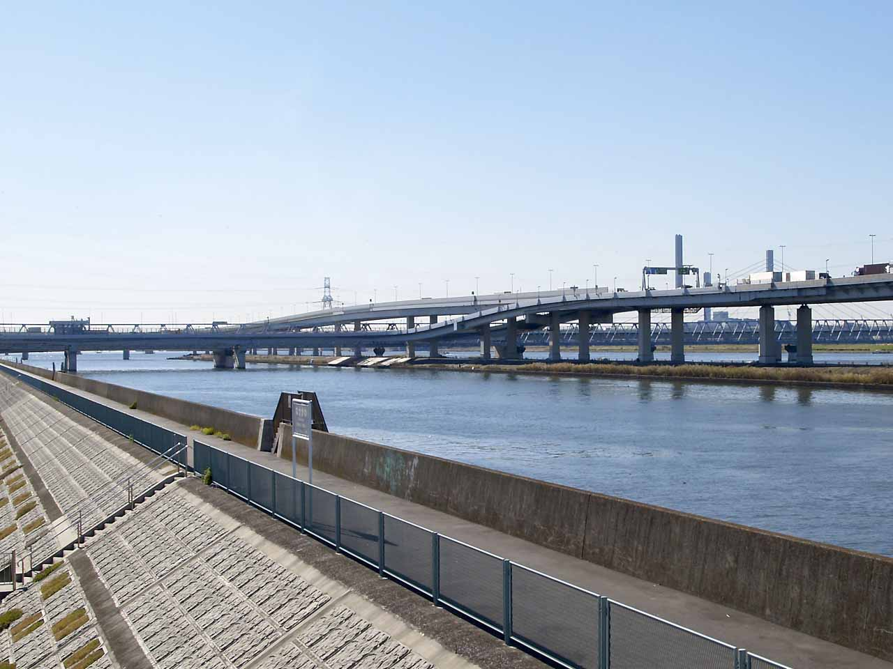 Metropolitan Expressway (Shutoko) Seishincho ramp, view from Kasai-bashi bridge.